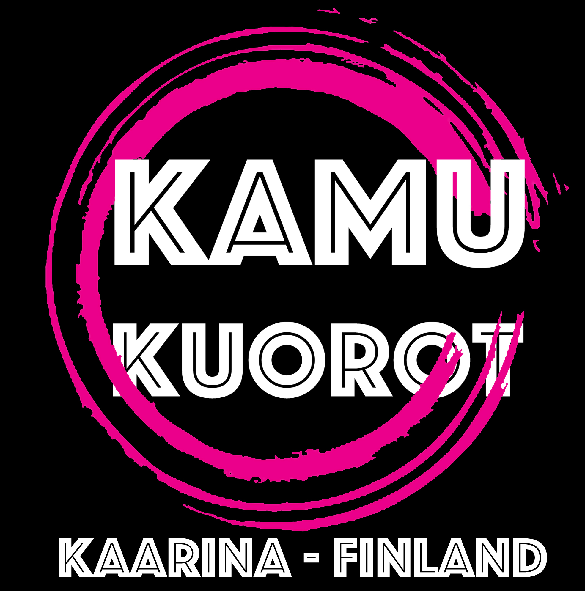 Logo of KaMu-kuorot, a choir in Kaarina, Finland for 2015.